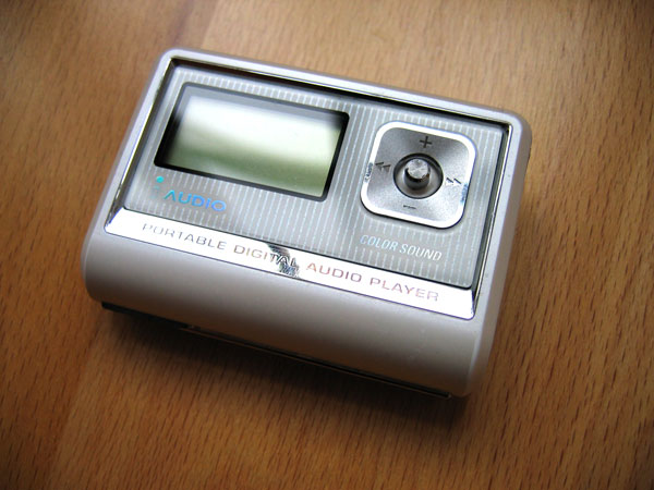 I took this picture.